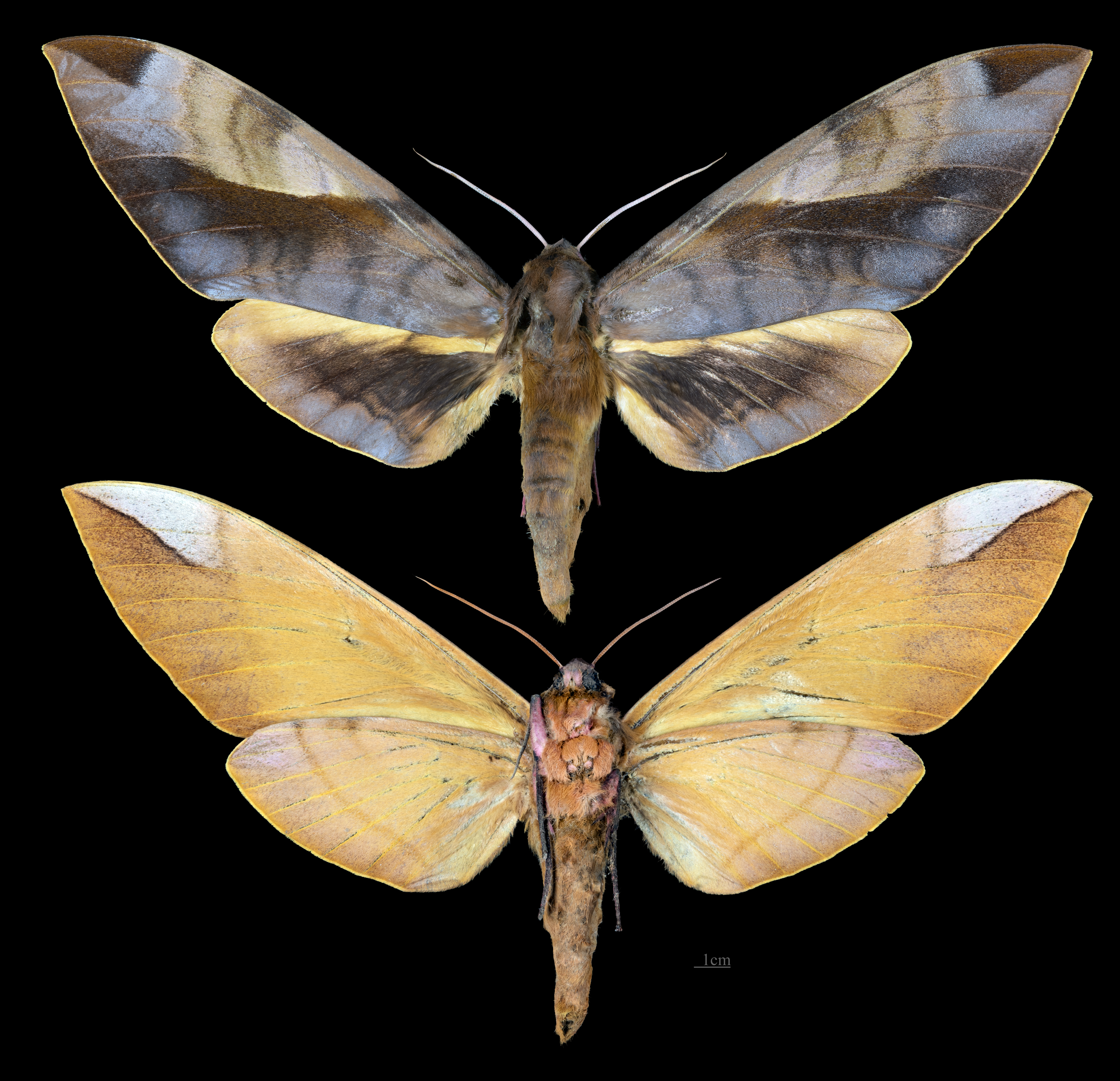 Clanis hyperion - Two views of same specimen Collection of the Mathematician Laurent Schwartz